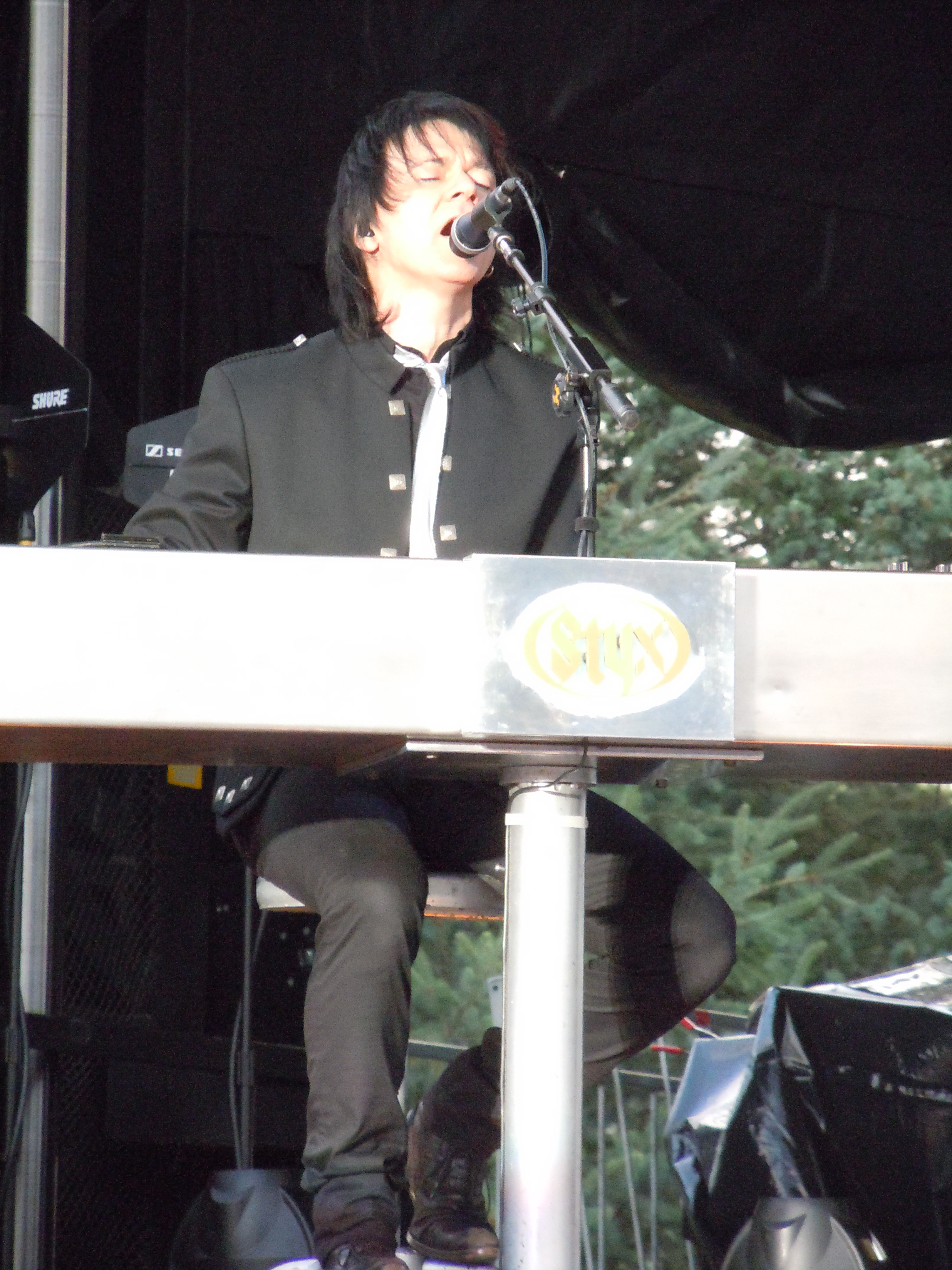 Lawrence Gowan of Styx in concert.